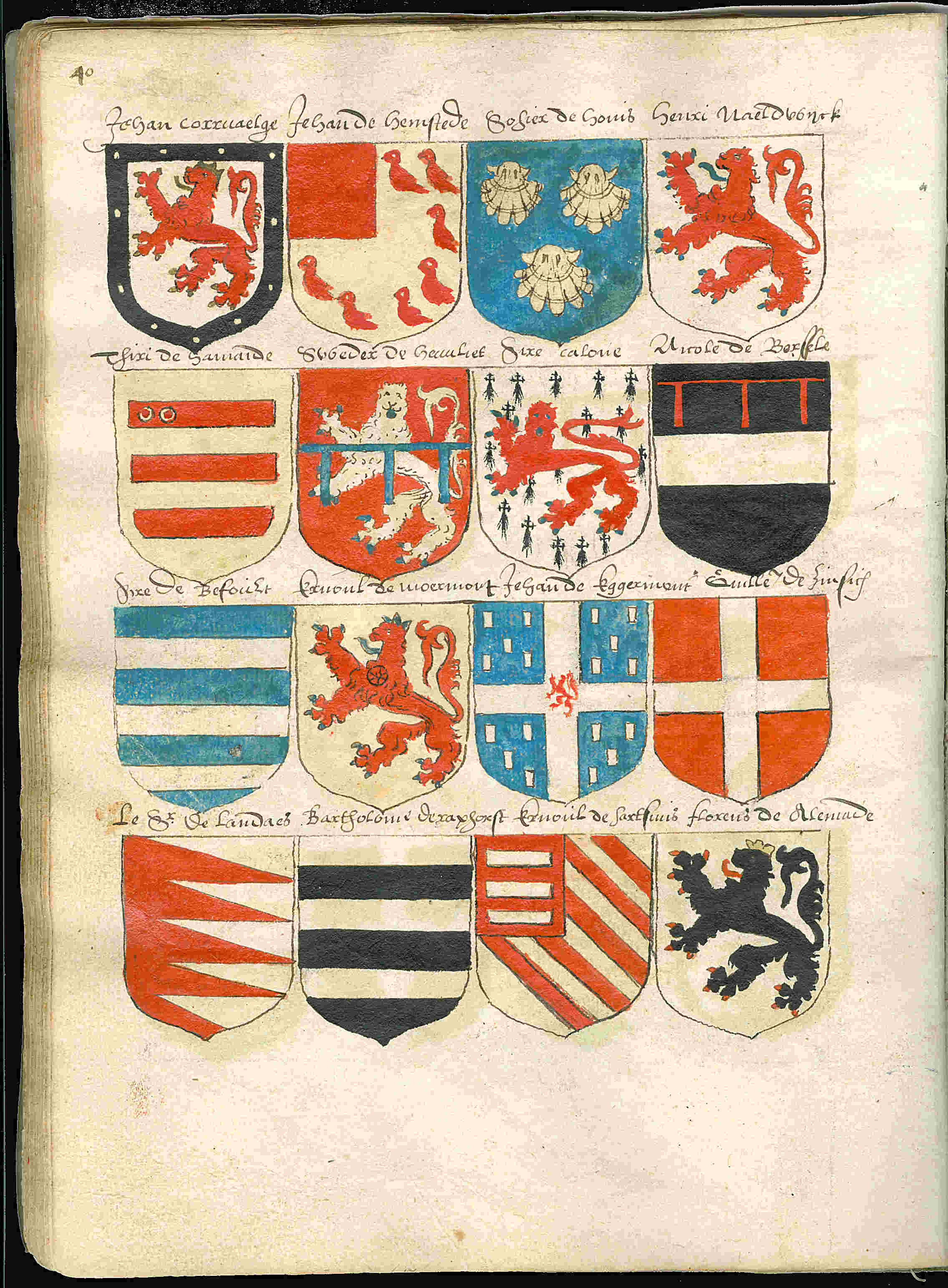 Page 40 from a copy of the Beyeren armorial / Wapenboek Beyeren from ca. 1600. The original Beyeren armorial from 1405 can be viewed at the website of the KB